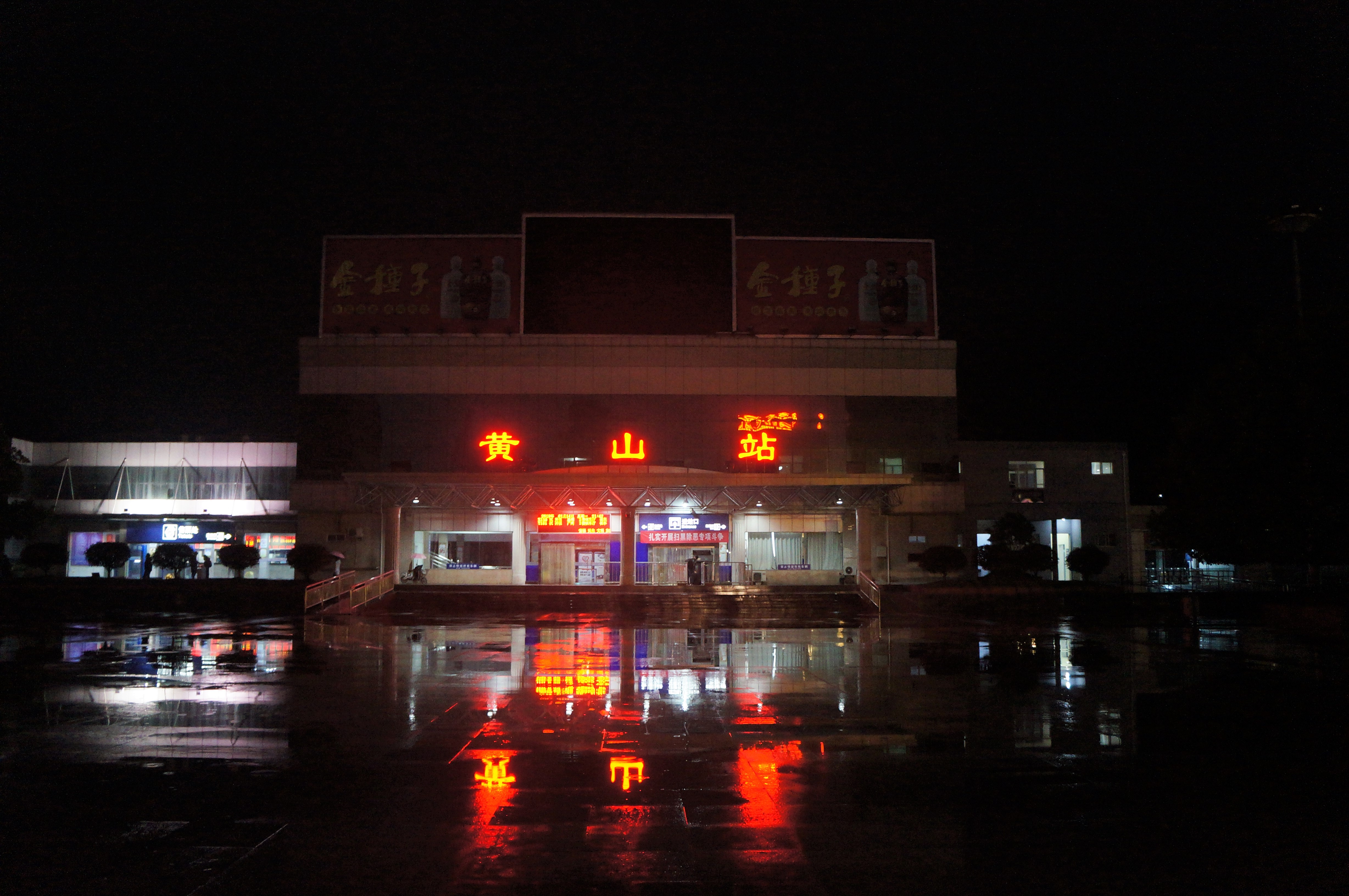 The font of the station name sign was changed to CRLi...